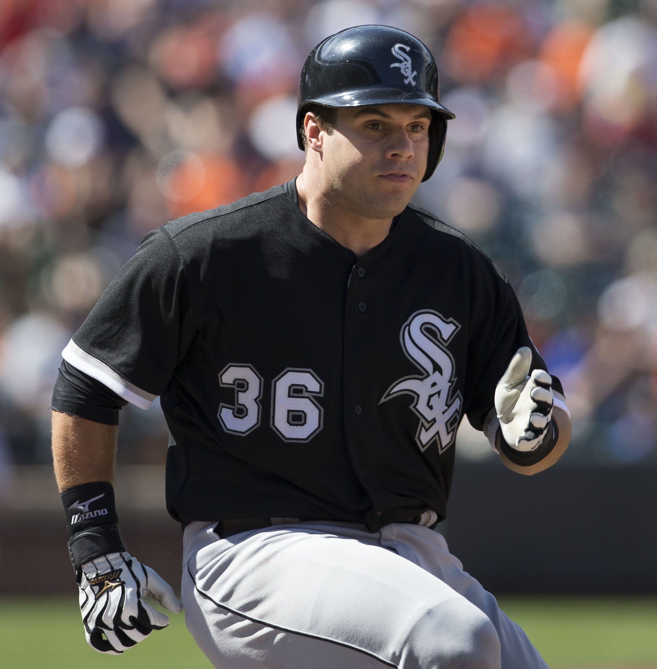 Josh Phegley